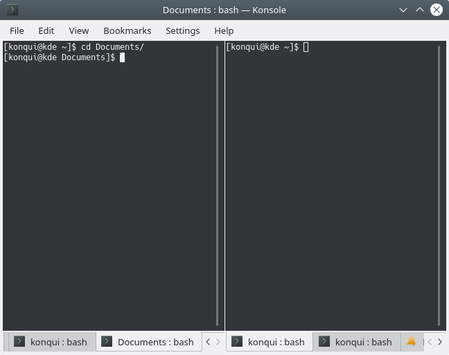 A Konsole window featuring window split, as referenced at (2007).